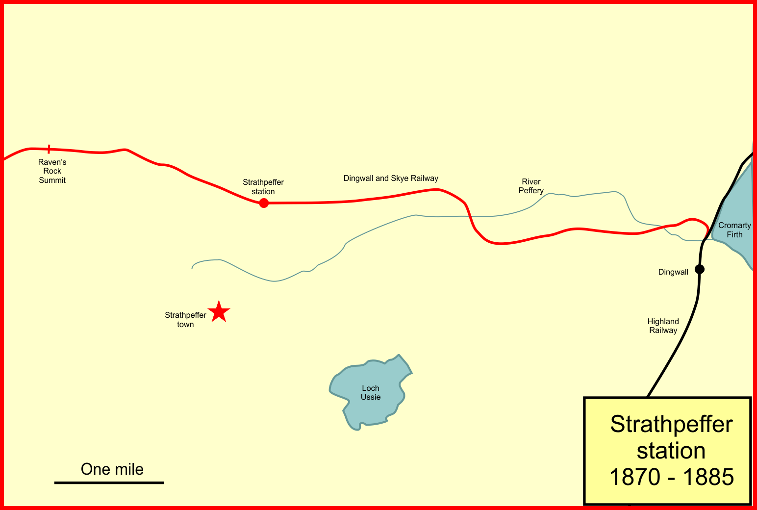 Map showing location of Strathpeffer railway station, Scotland, from 1870 until 1885